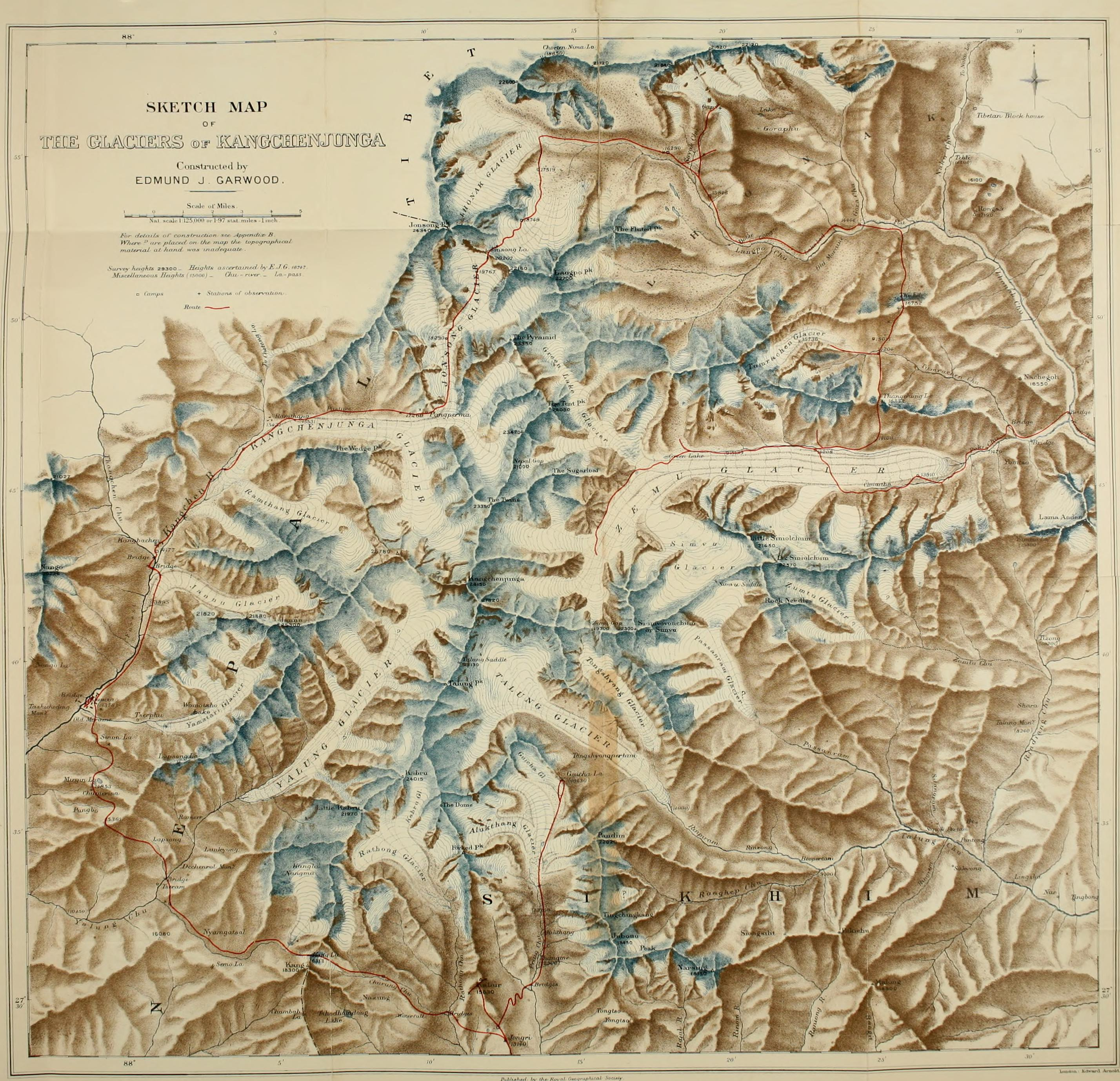 Title: Round Kangchenjunga; a narrative of mountain travel and exploration Year: 1903 (1900s) Authors: Freshfield, Douglas William, 1845-1934 Subjects: Geology -- India Sikkim Kanchenjunga (Nepal and India) Publisher: London : E. Arnold Text Appearing Before Image: ljond\inard Arnold. Text Appearing After Image: INDEX Where the spellings ff local names used by the Pundils differ froin those adopted in the text,they are not, as a ride, separately indezed. Abode of Snow, Tht, (j noted, 12.Alaska expedition, Duke of the Abnizzis, 6.Alpine flora, 1U7, 110, 130, 139. guides, 6. regiments, 10, 11. travel, 3. Altitude, efifects of, 48, 104, 116, 145, ir)4, 161, 194, 226, 228, 237-9, 308, 319, 320, 322, 333.Alukthang, Vale of, 222-4, 234, 279, 282. Glaciers of, 234. Ammo Chu, 62. Amonri the Himalayas quoted, 4, 21, 47, 87, 105, 201, 208, 304.Aneroid, Watkin, 305.Animals, 108, 329.Armour, Tibetan, 272.Aran Valley, 201.Augen-gneiss, 290, 291.xluthoritics, list of, 3.)9 ■sc^. Bakhim, 245. Bay ley. Sir Steuart, quoted, 59, 64. Bhutan, 16. Bhutias, 34seg., 253. Bidang Cho Lake, 280. Blanford, Dr., quoted, 89, 280, 299, 307. Boeck, Dr., quoted, 200, 304, 356. Bose, P. N., quoted, 225, 246-7, 282, 290, 307.Boundary of Nepal and Sikhim, 137, 312. of Tibet and Sikhim, 65, 137. Bridge, natural, 102.Bruce, Ma